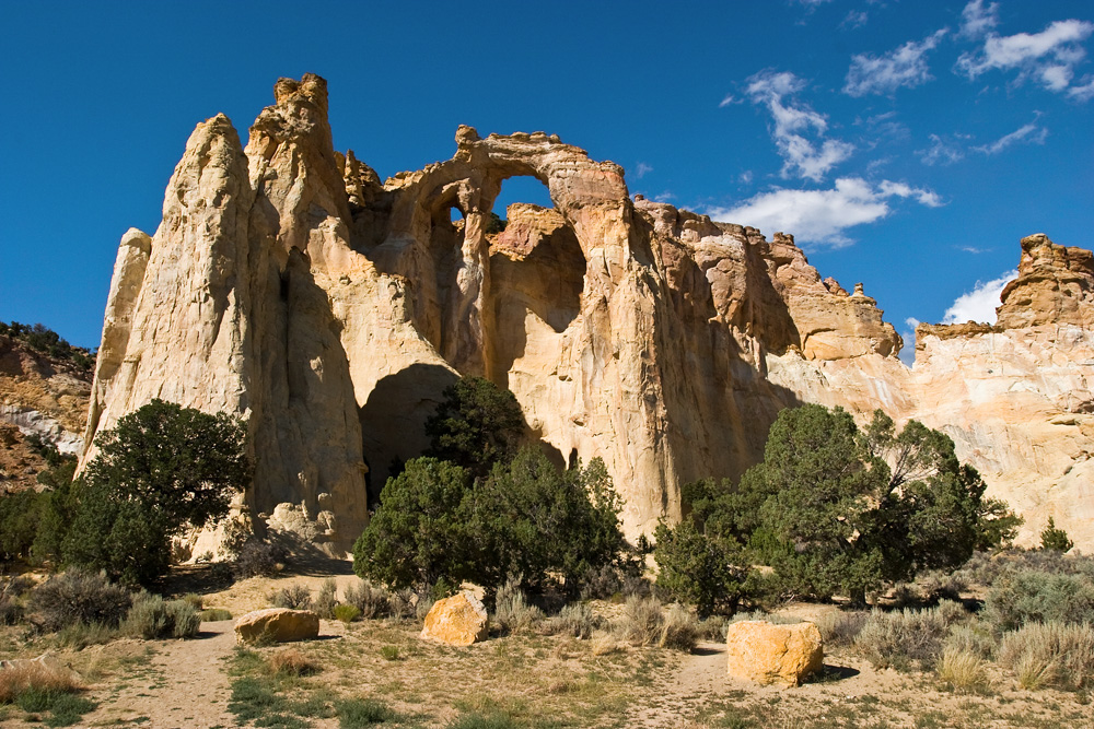 Rare double arch, not to far from Bryce Canyon and Kodachrome Basin State Park. The arch is located in the Grand Staircase Escalante National Monument. To view this photo larger or view purchase information click here.